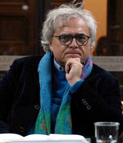 photo